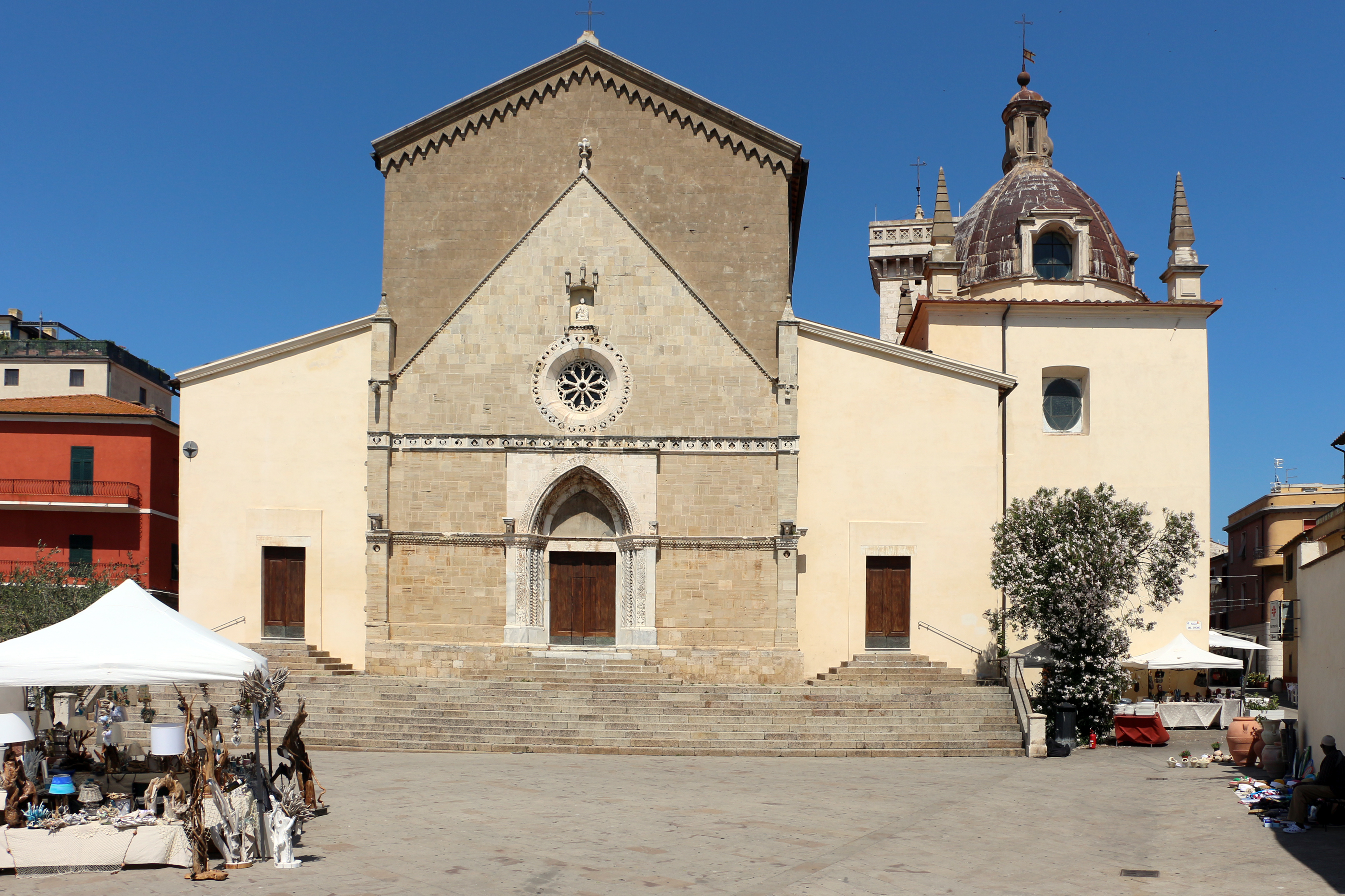 Duomo (Orbetello)